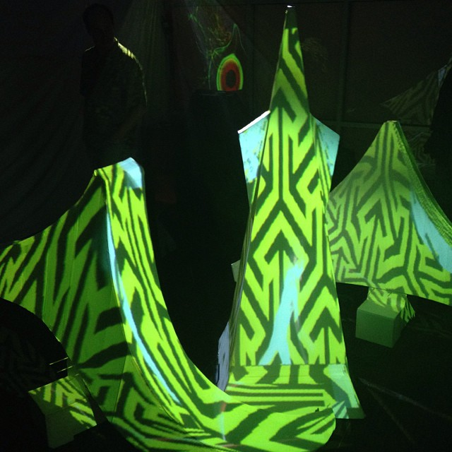 had to wait for 5ENSES to close to avoid spoilers but nice projection mapping by @DoloresJoya @CODA_ME #codame Flickr Tags: square squareformat iphoneography instagramapp uploaded:by=instagram vision:dark=0559 vision:plant=0858 foursquare:venue=5226083b11d2d4ee994a3a4d . venue: Geekdom SF (Coworking Space and Tech Startup) San Francisco, CA, United States